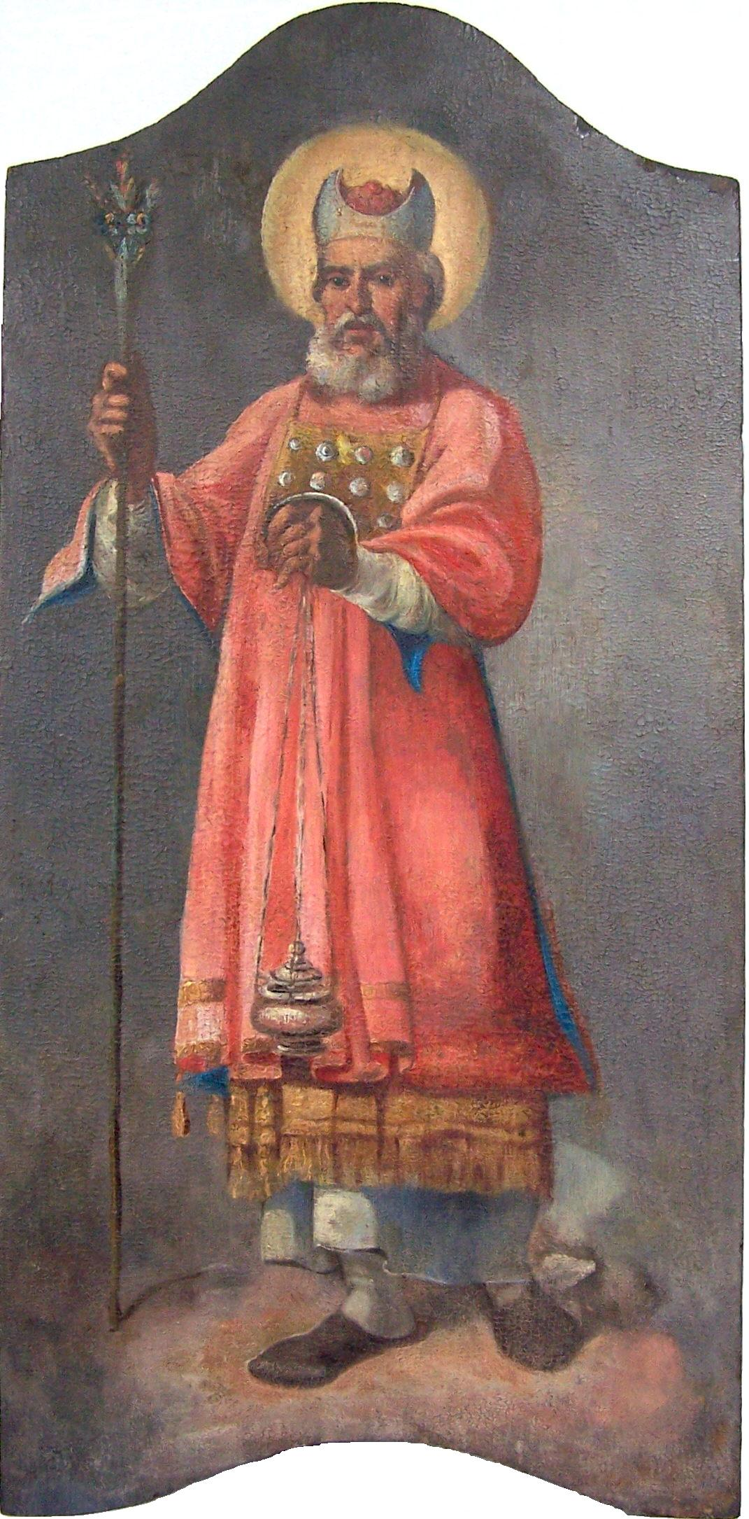 The picture is a Greek Catholic icon depicting the prophet Aaron as high priest. The icon was painted in the end of the 18th century as part of the iconostasis of the Greek Catholic Cathedral of Hajdúdorog, Hungary. Aaron's icon is placed on the third tier of the iconostasis, the so called Prophet tier. This icon is the sixth painting from the right.